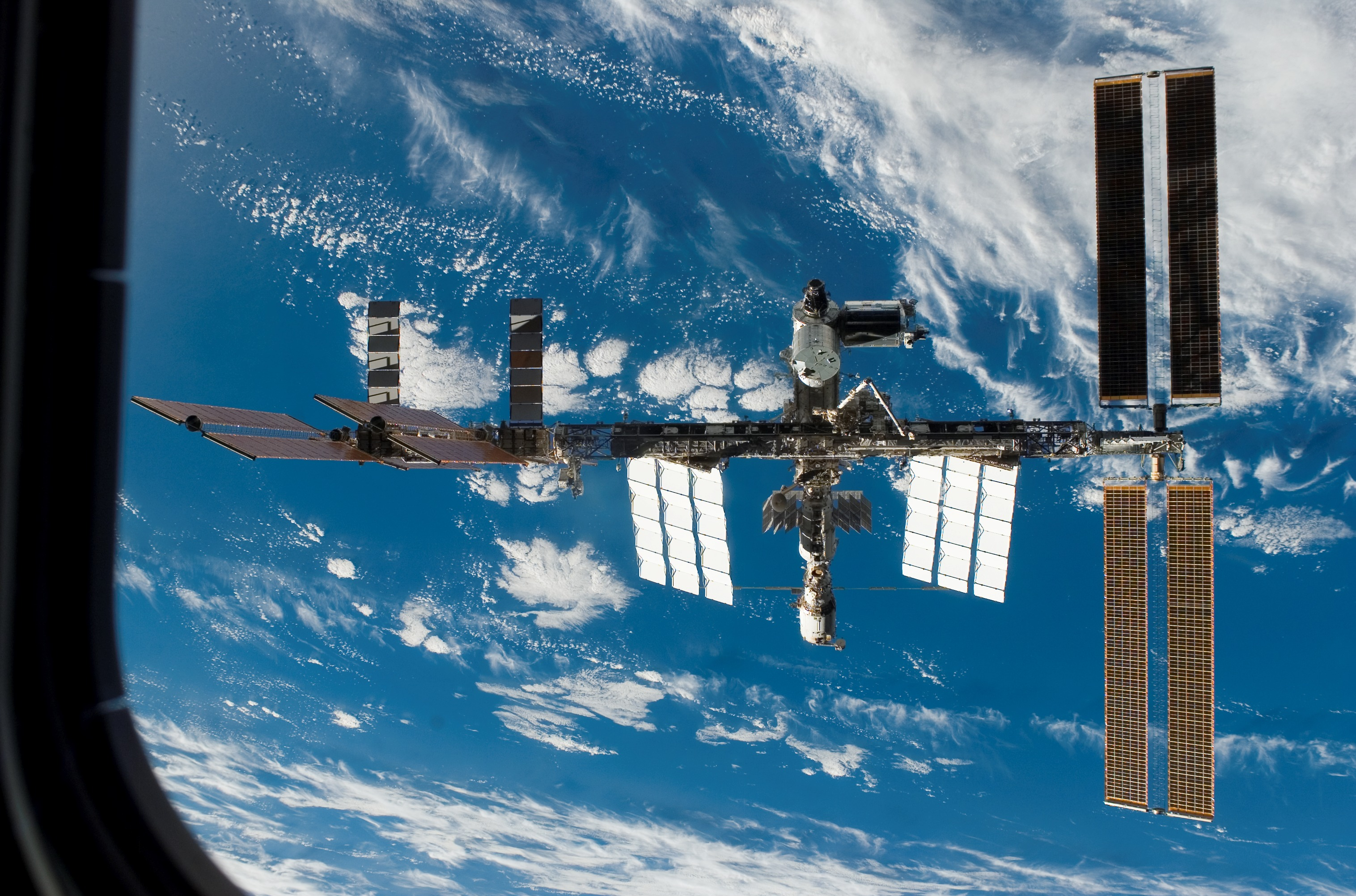 Backdropped by a blue and white part of Earth, the International Space Station is seen from Space Shuttle Endeavour as the two spacecraft begin their relative separation. Earlier the STS-123 and Expedition 16 crews concluded 12 days of cooperative work onboard the shuttle and station. Undocking of the two spacecraft occurred at 7:25 p.m. (CDT) on March 24, 2008.